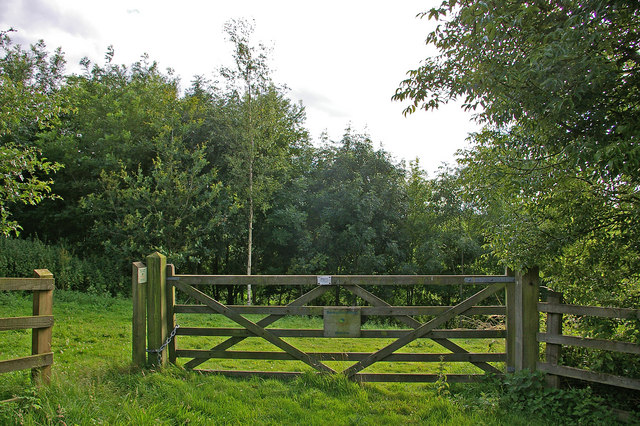 Entrance to Beningfield Wood Nature Reserve This Woodland Trust reserve was planted in 1995 and 1996 on what was originally three fields of improved grassland. It is named after Gordon Beningfield, the artist, who, although based in Hertfordshire, was very fond of Dorset.